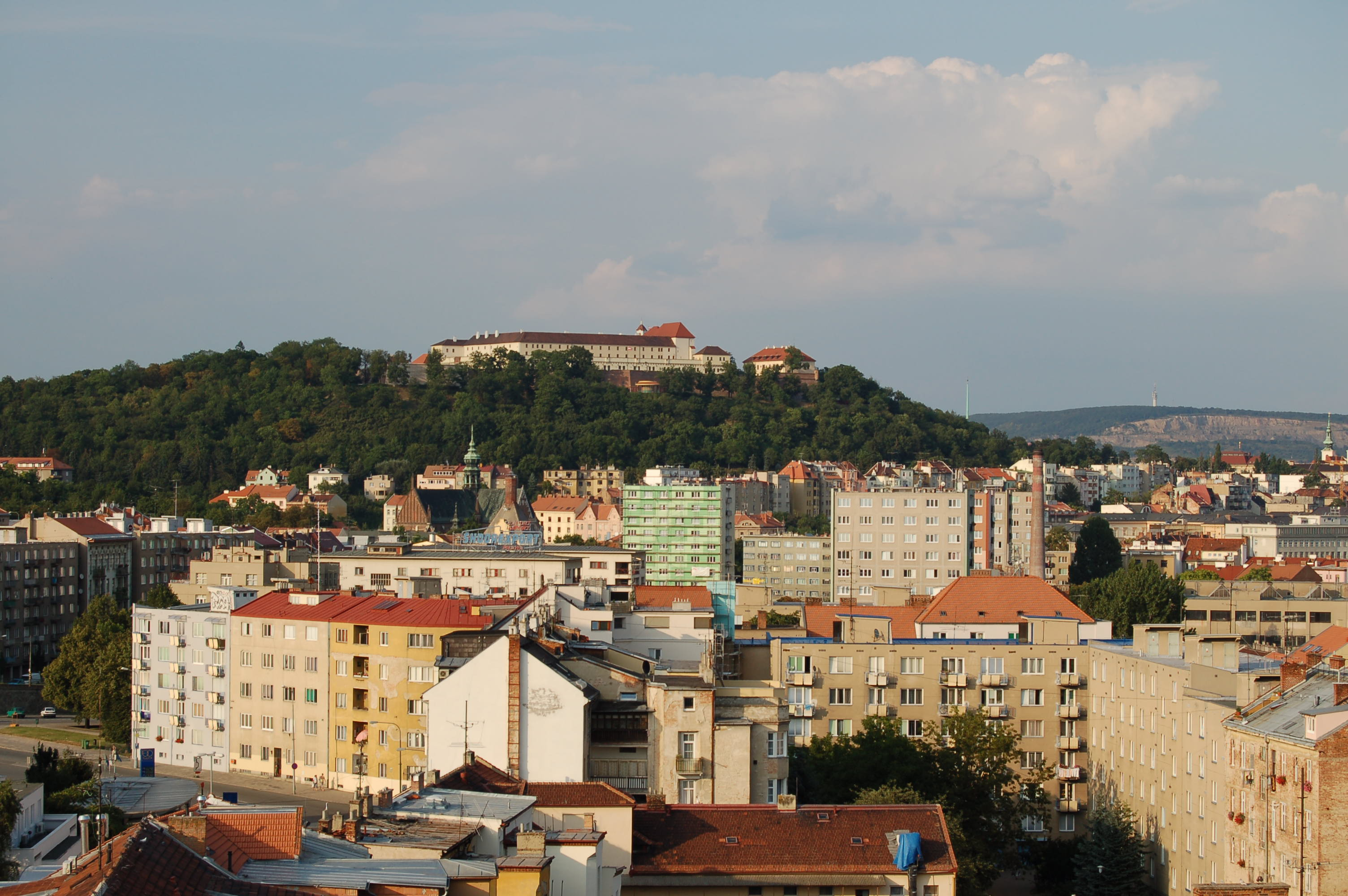 View on Brno from the top of Hotel Voronez (located near the Expo area)